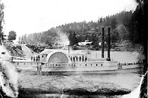 Lot Whitcomb sidewheeler built early 1850s in Oregon, later transferred to California